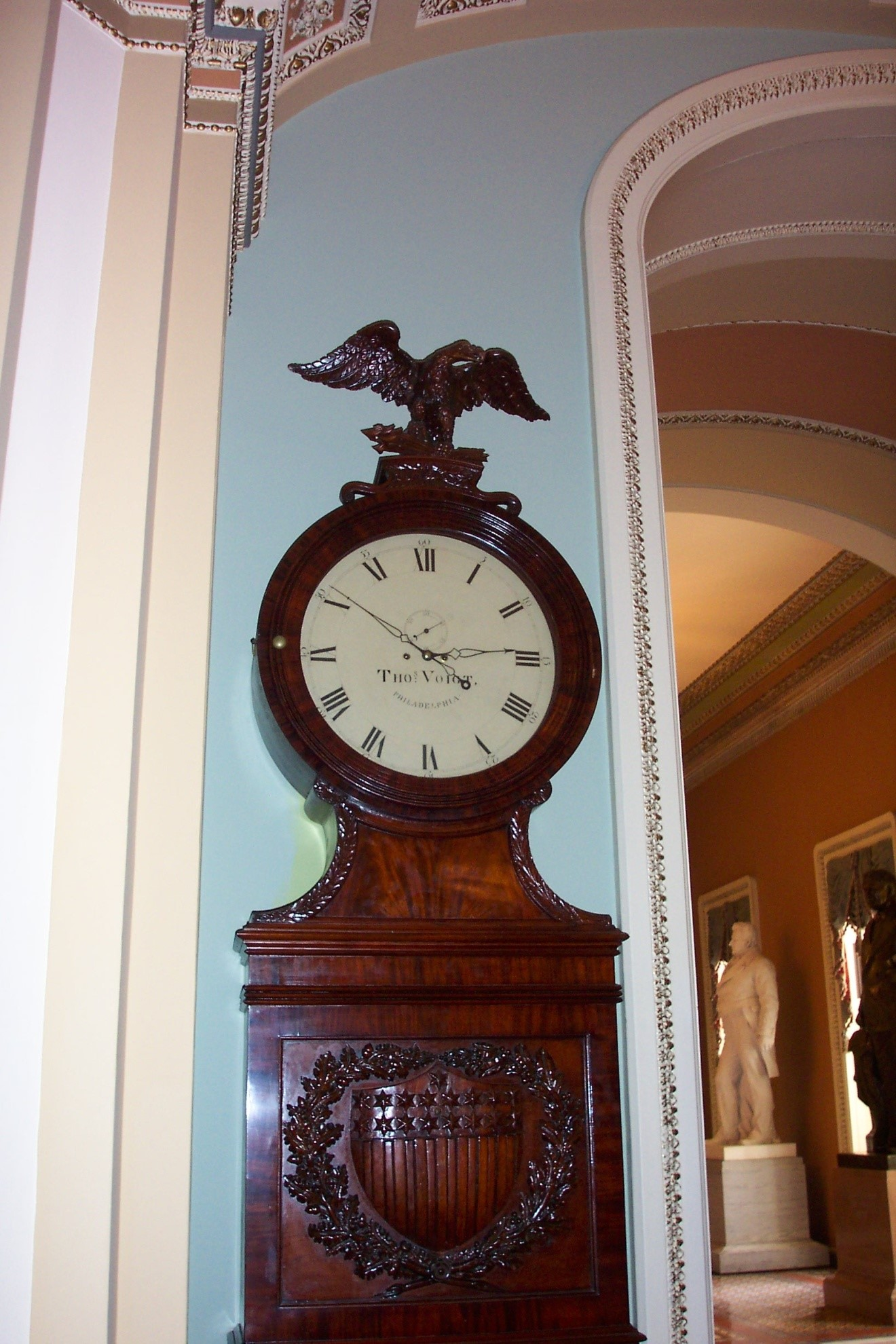 The Ohio Clock photographed by this article’s writers in 2004 as it stands across the hall from the main entrance of the U. S. Senate (Photographed with permission of Mr. Richard Allan Baker, Historian of the U. S. Senate)